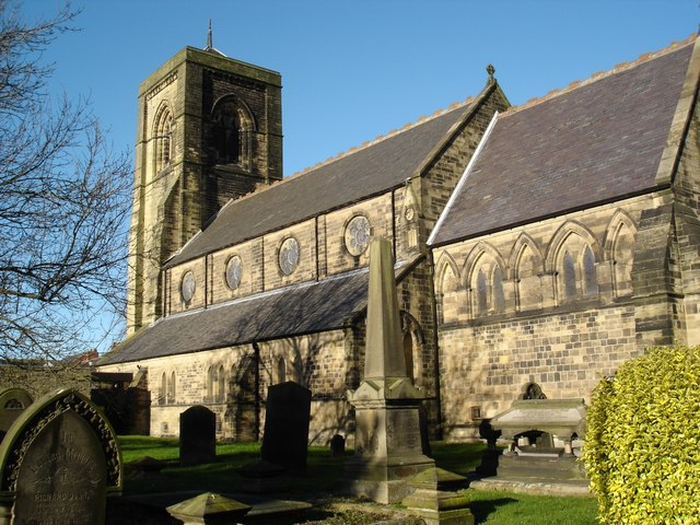 Cramlington St Nicholas the south facing side of the church